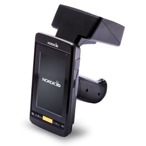 Medea - UHF RFID Mobile Reader from Nordic ID